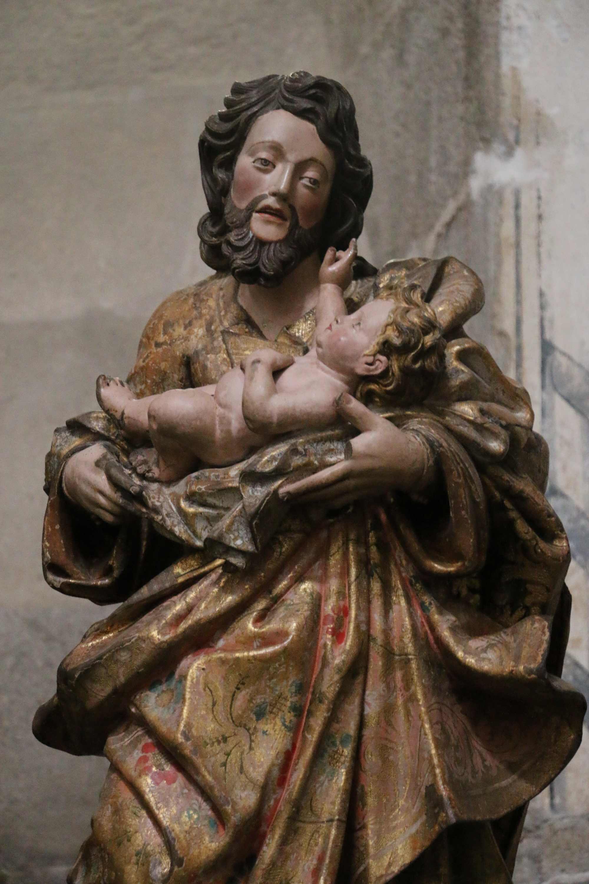 Mosteiro de Santa Maria, Pombeiro, Porto, Portugal Monastery of Santa Maria de Pombeiro Native nameMosteiro de Santa Maria, PombeiroLocationPombeiro, Porto, PortugalCoordinates41° 22′ 57.16″ N, 8° 13′ 31.69″ W Established11th century date QS:P,+1050-00-00T00:00:00Z/7 Web page Authority control : Q6898370 VIAF: 153924171 LCCN: no98090484 WorldCat institution QS:P195,Q6898370